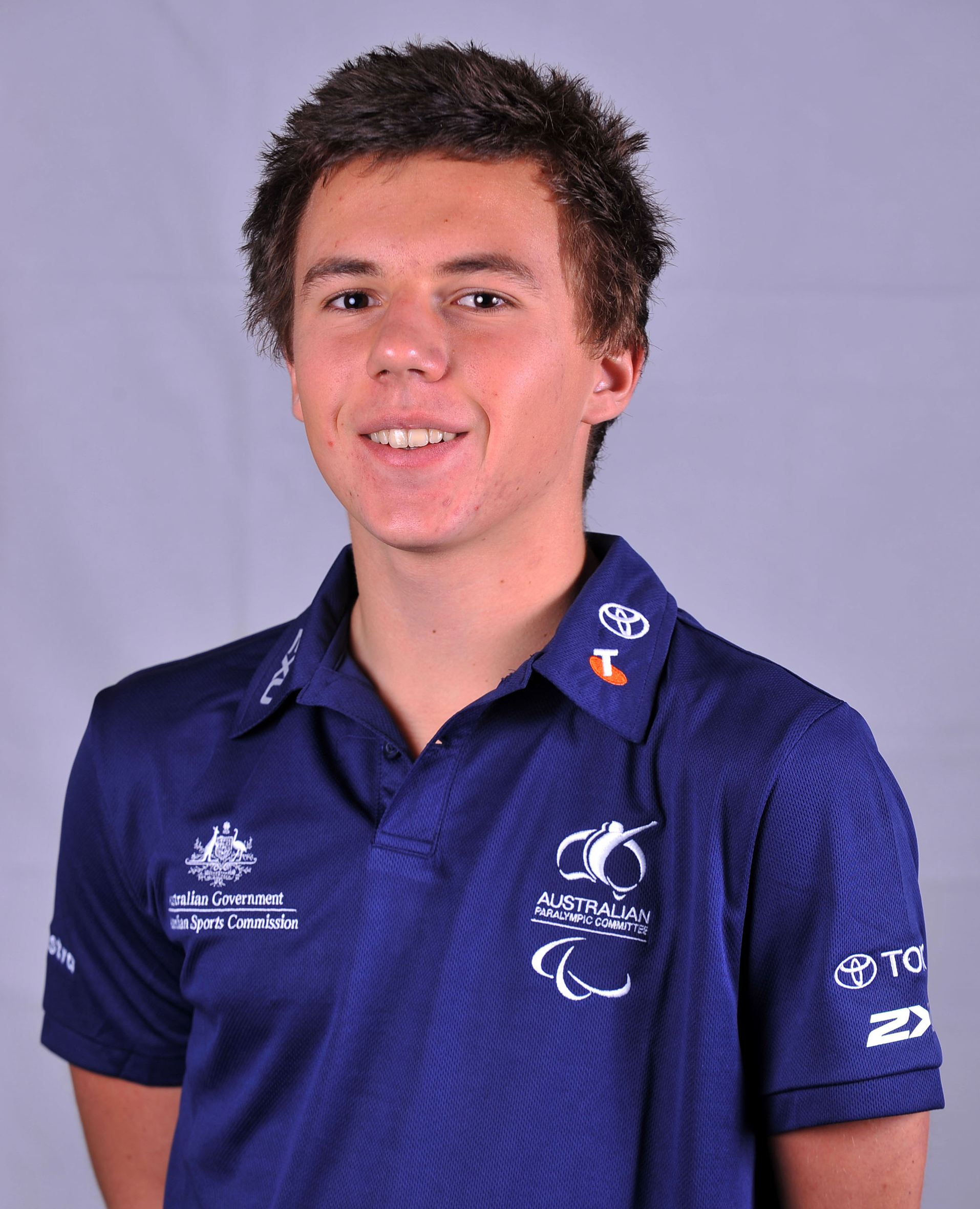 Portrait of Australian athlete Matthew Silcocks, 2012 Australian Paralympic (shadow) Team athlete